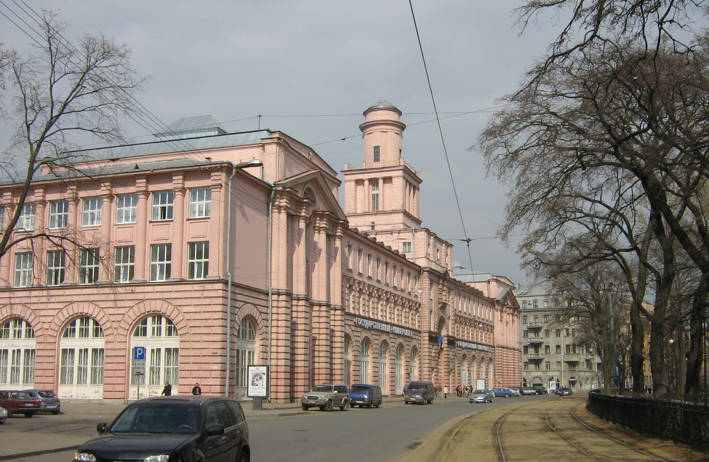 49, Kronwerksky Prospekt (Saint-Petersburg), House of City Organizations (1912-1913), architect Marian Peretyatkovich with participation of Marian Lalewicz